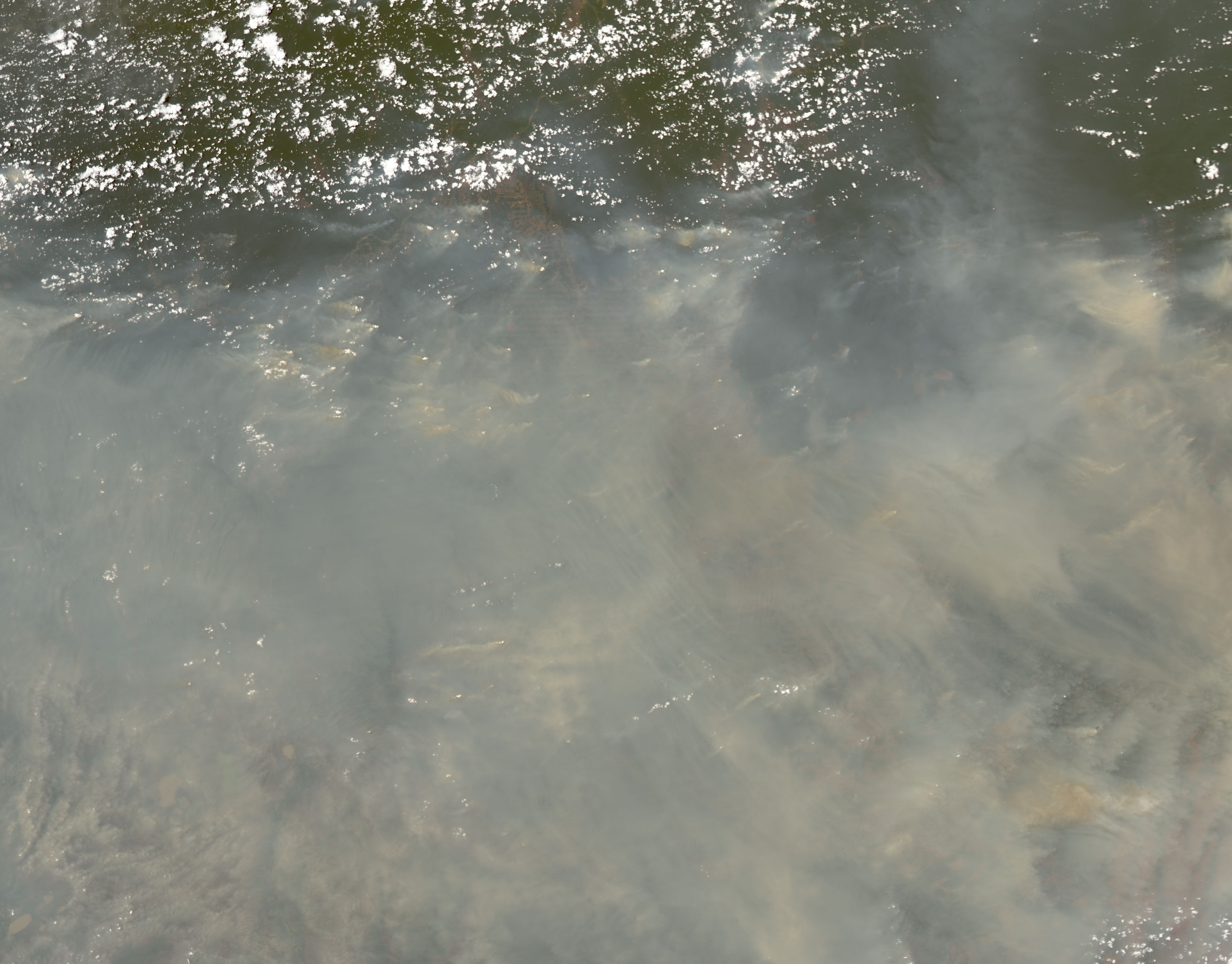 This image shows one consequence of forest clearing in the Amazon: thick smoke that hangs over the forest.